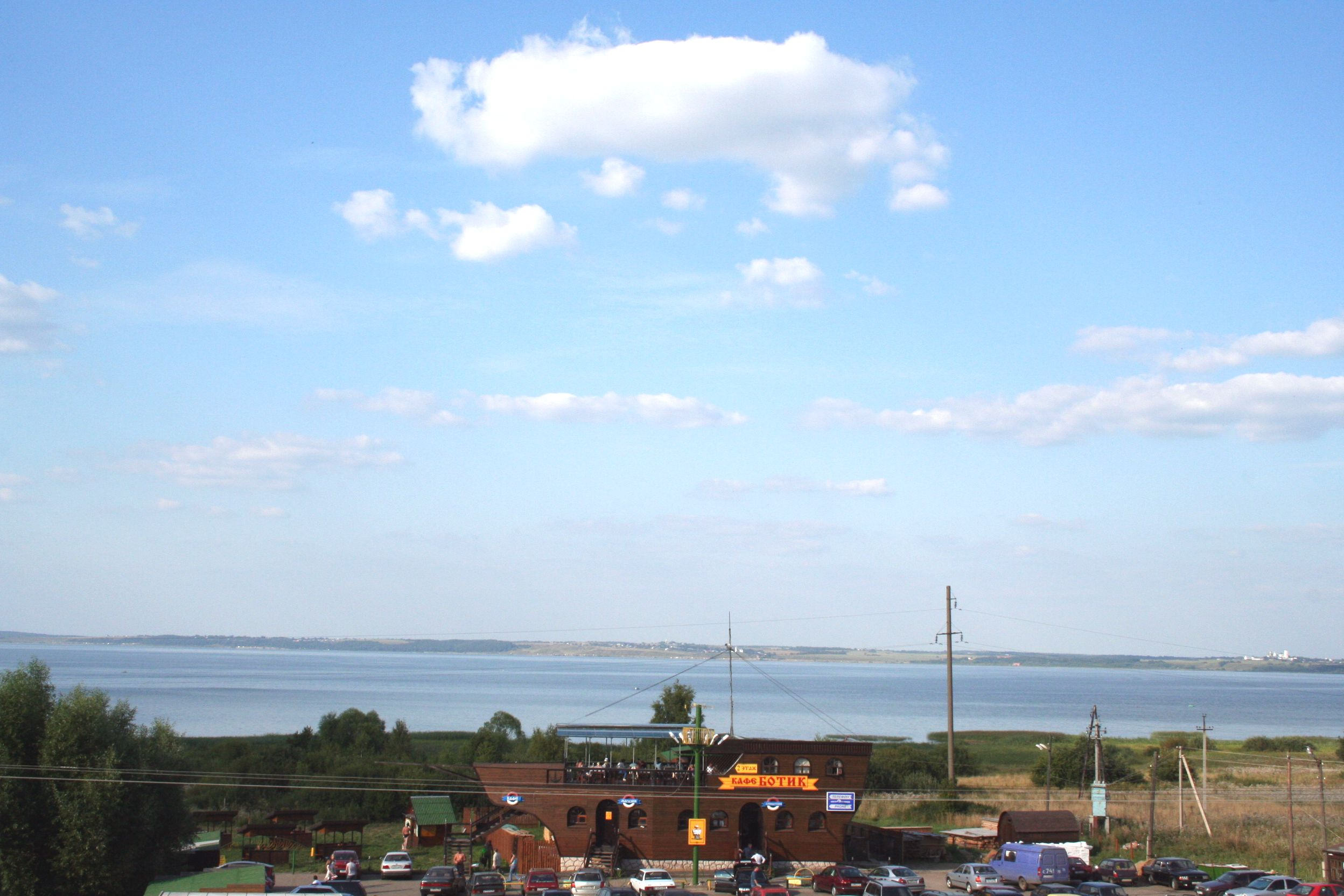 Lake Plescheyevo in Pereslavl-Zalessky. (August, 2005)